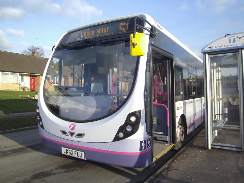 LK62FUJ, a Wright StreetLite with First South Yorkshire.